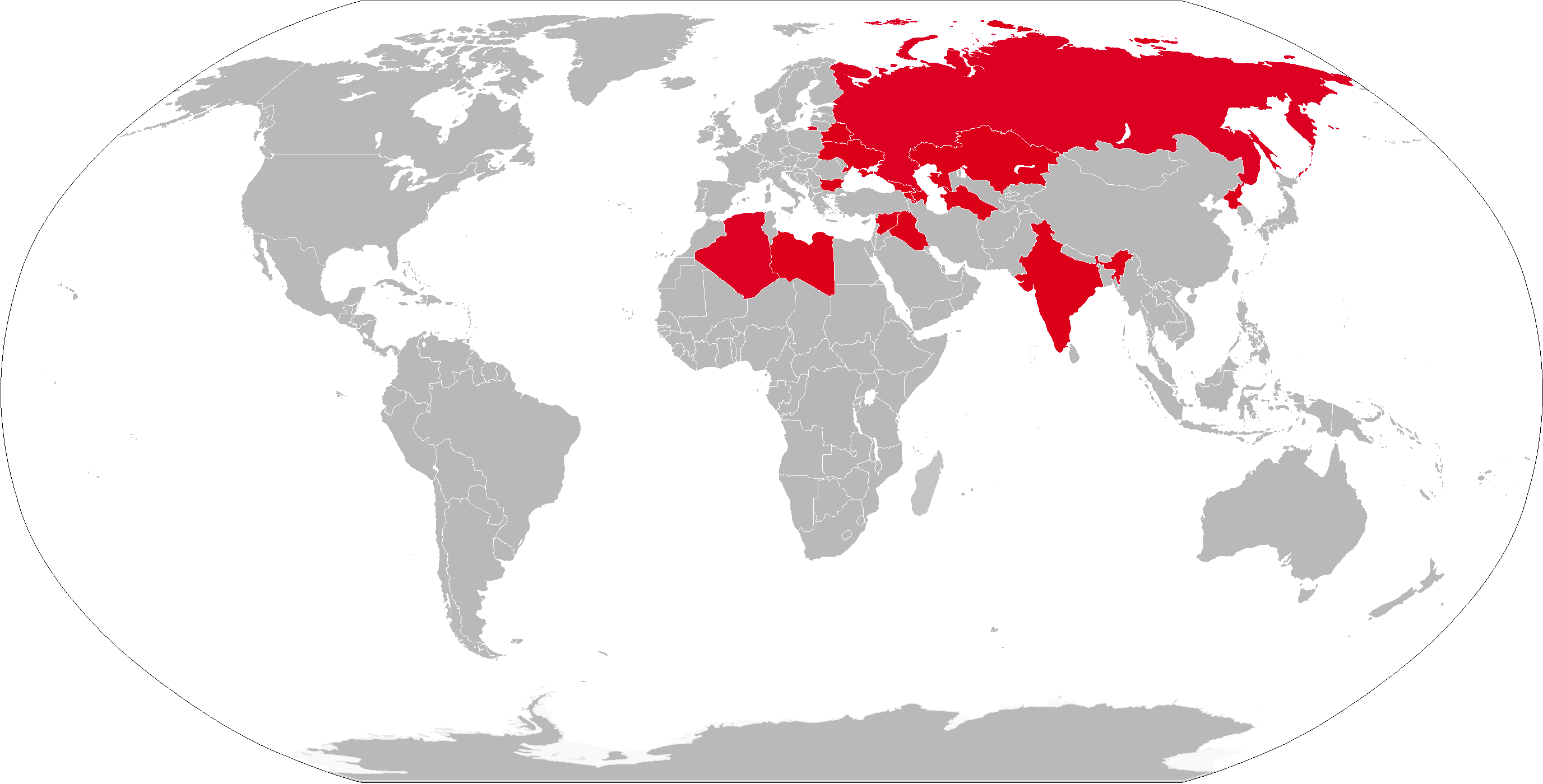 MiG-25 Operators 2010 (former operators in red)